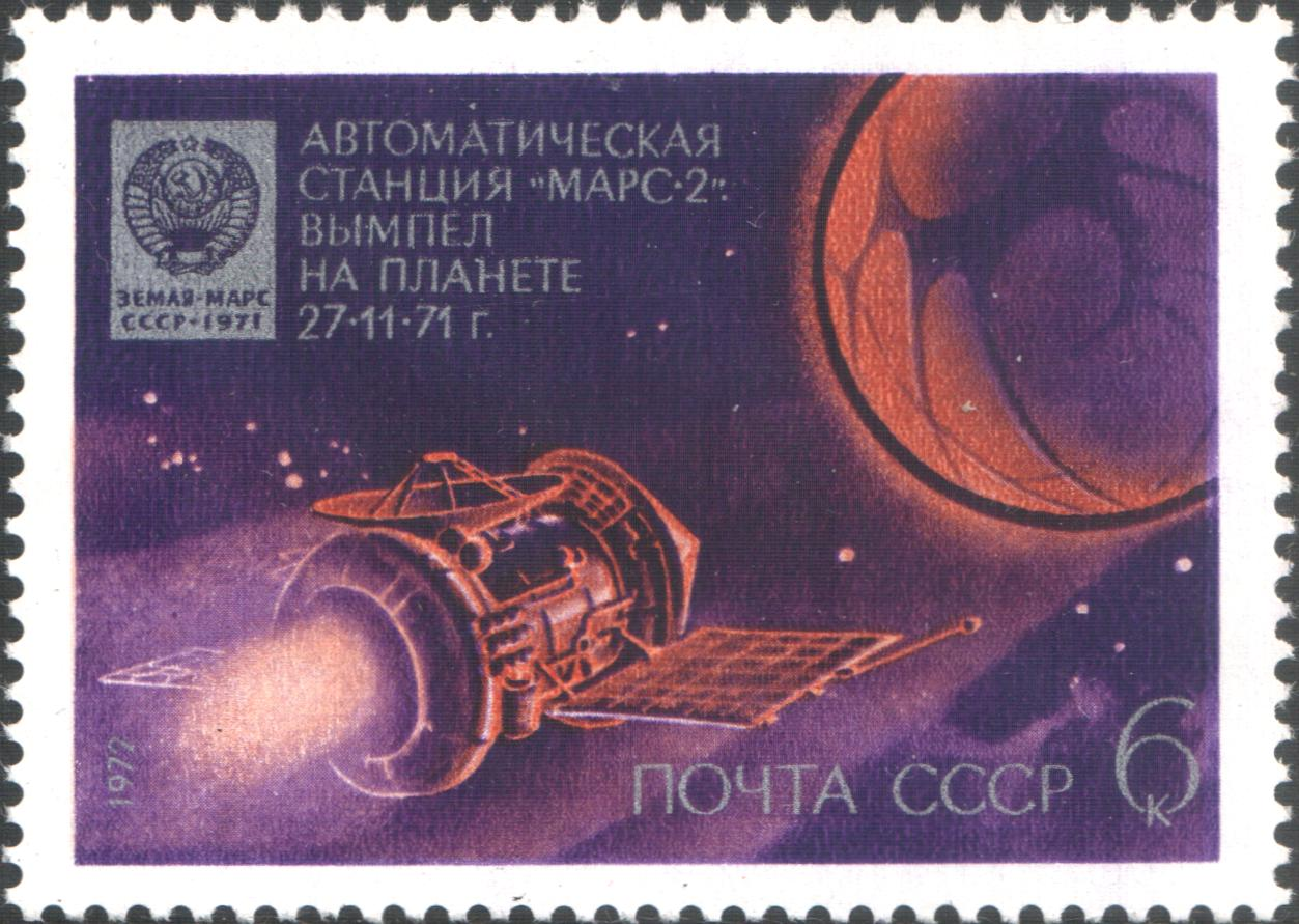 USSR stamp